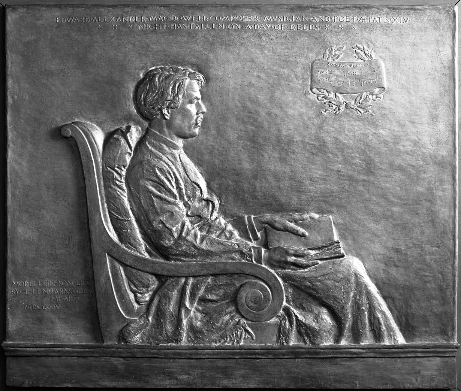 Helen Farnsworth Mears (American, 1871-1916). Edward Alexander Mac Dowell, 1906. Bronze, Bronze plaque: 33 3/16 x 39 3/4 x 1 3/16 in. (84.3 x 101 x 3 cm). Brooklyn Museum, Gift of Anne Lupton Prince, 16.757. Creative Commons-BY